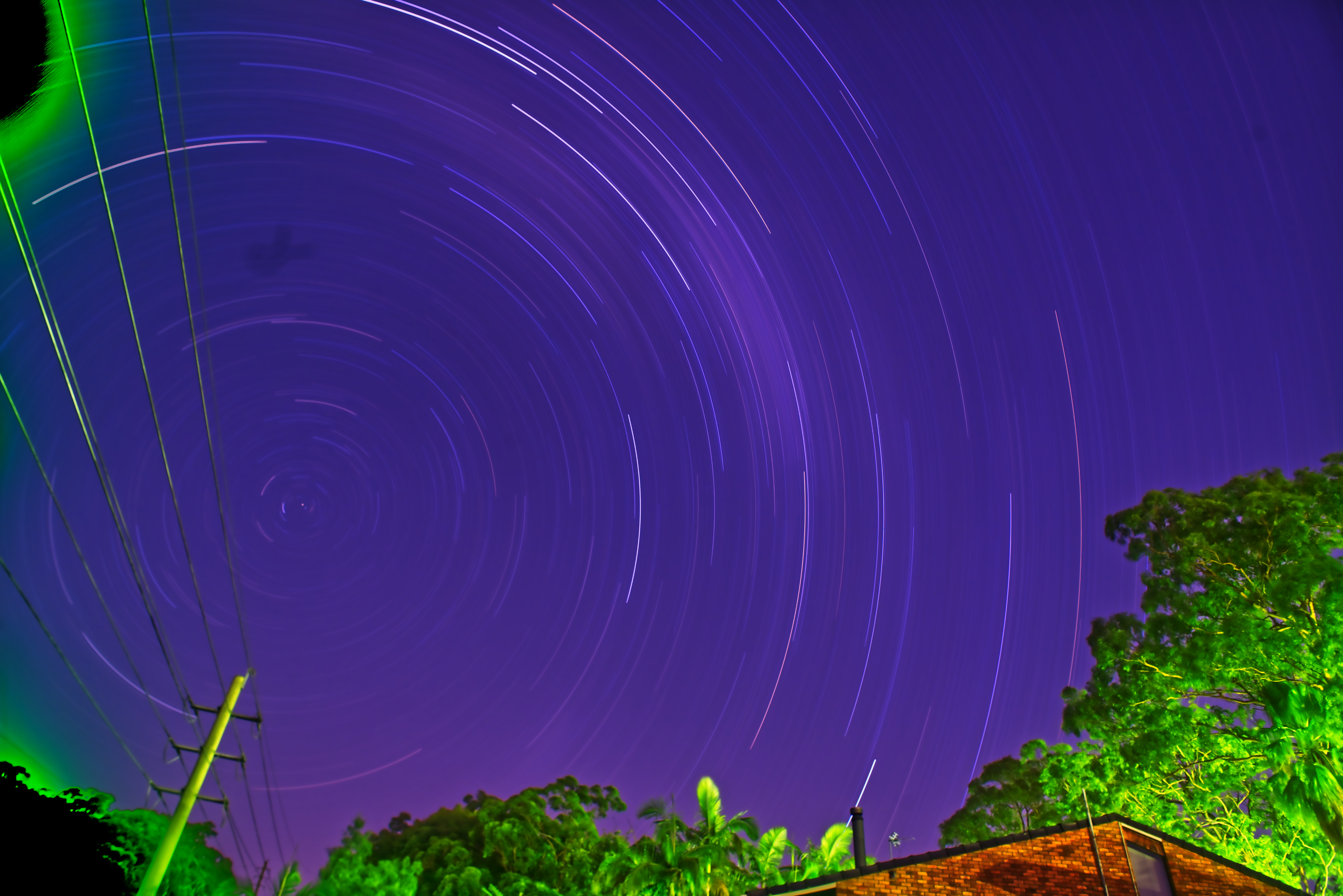 The star trails observed in Eleebana, NSW, Australia on Mar 03, 2019